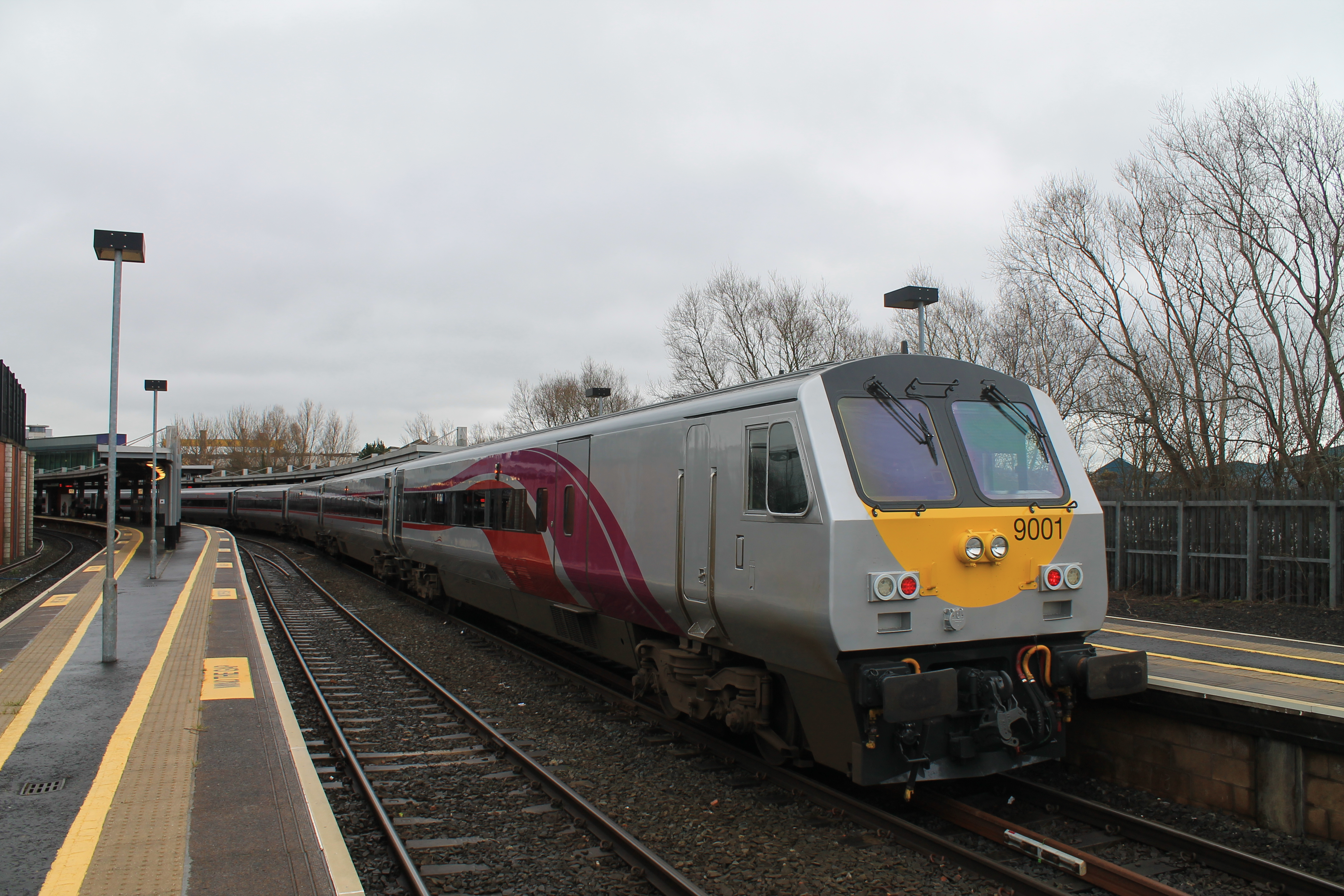 DeDietrich control car at Belfast Central.